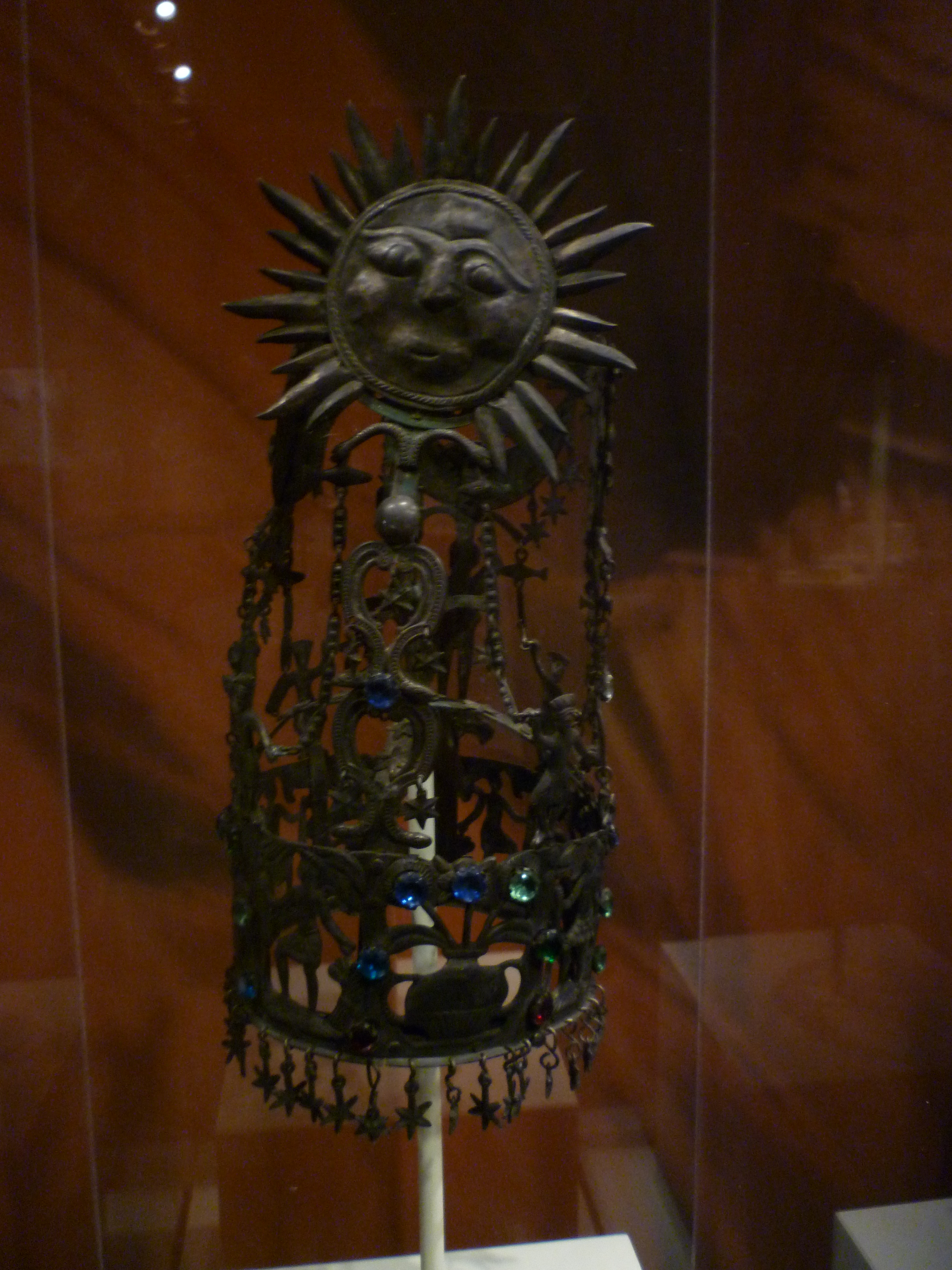 Inca dance crown. Silver, gemstones. Peru or Bolivia.